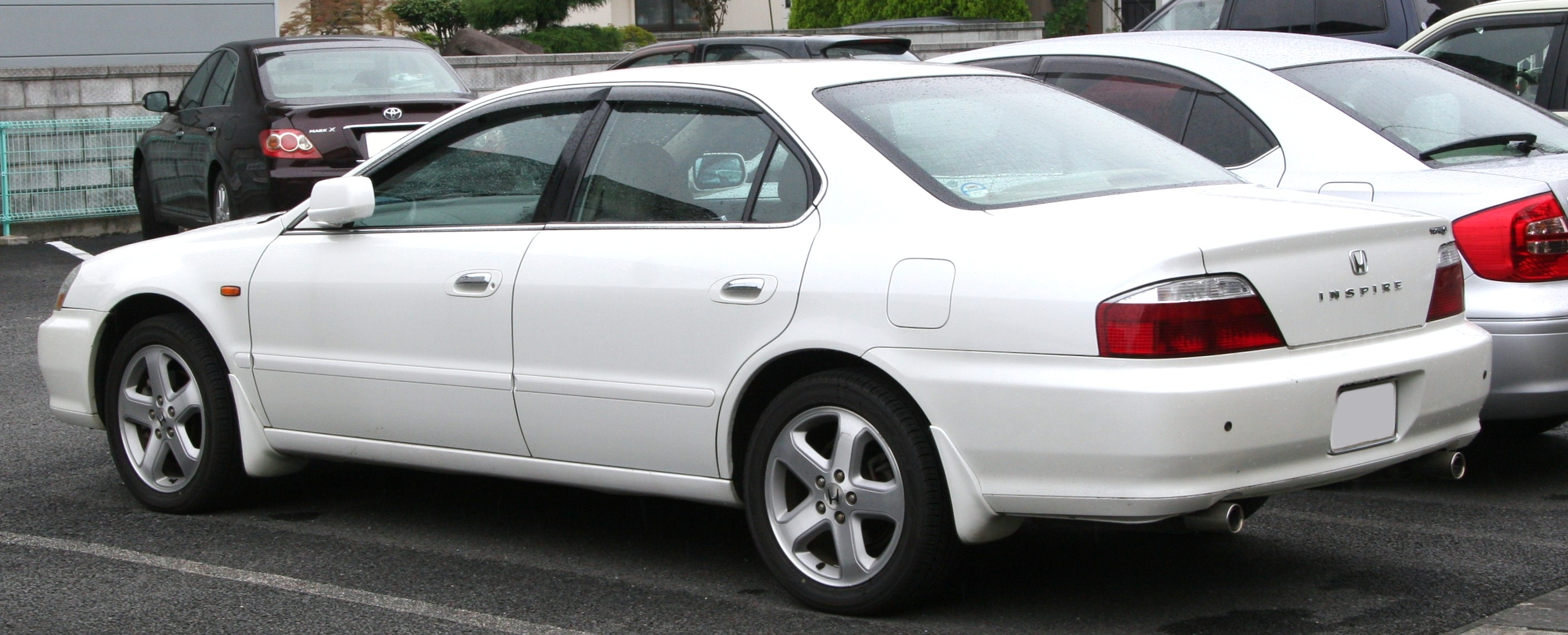 Honda Inspire